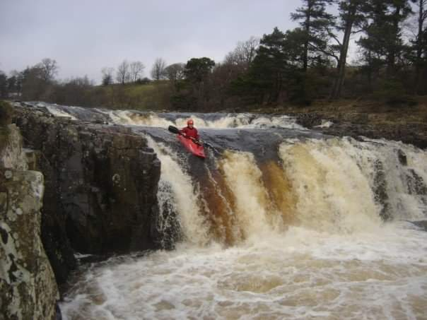 Low Force, River Tees